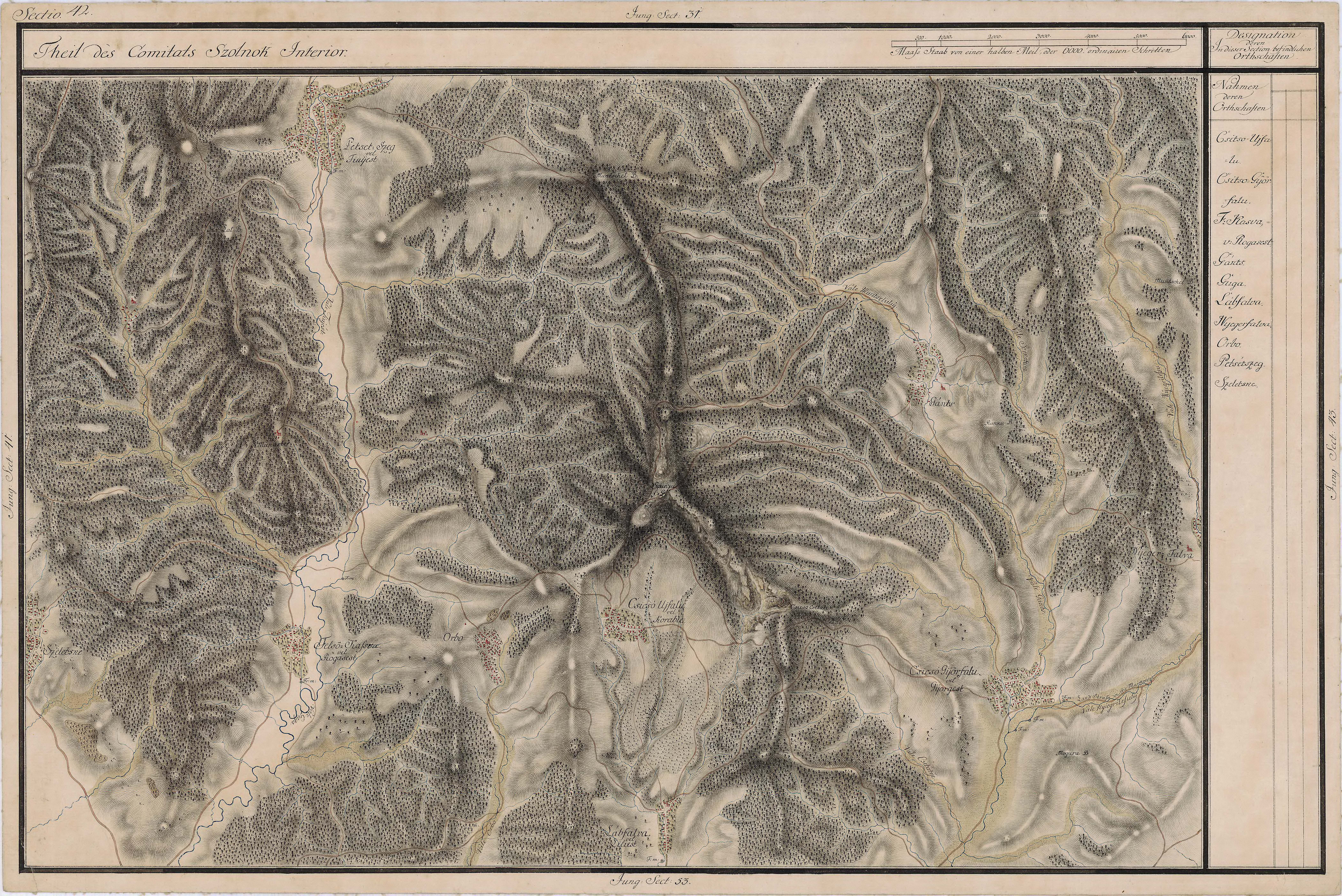 Grand Duchy of Transylvania, 1769-1773. Josephinische Landaufnahme pg.042